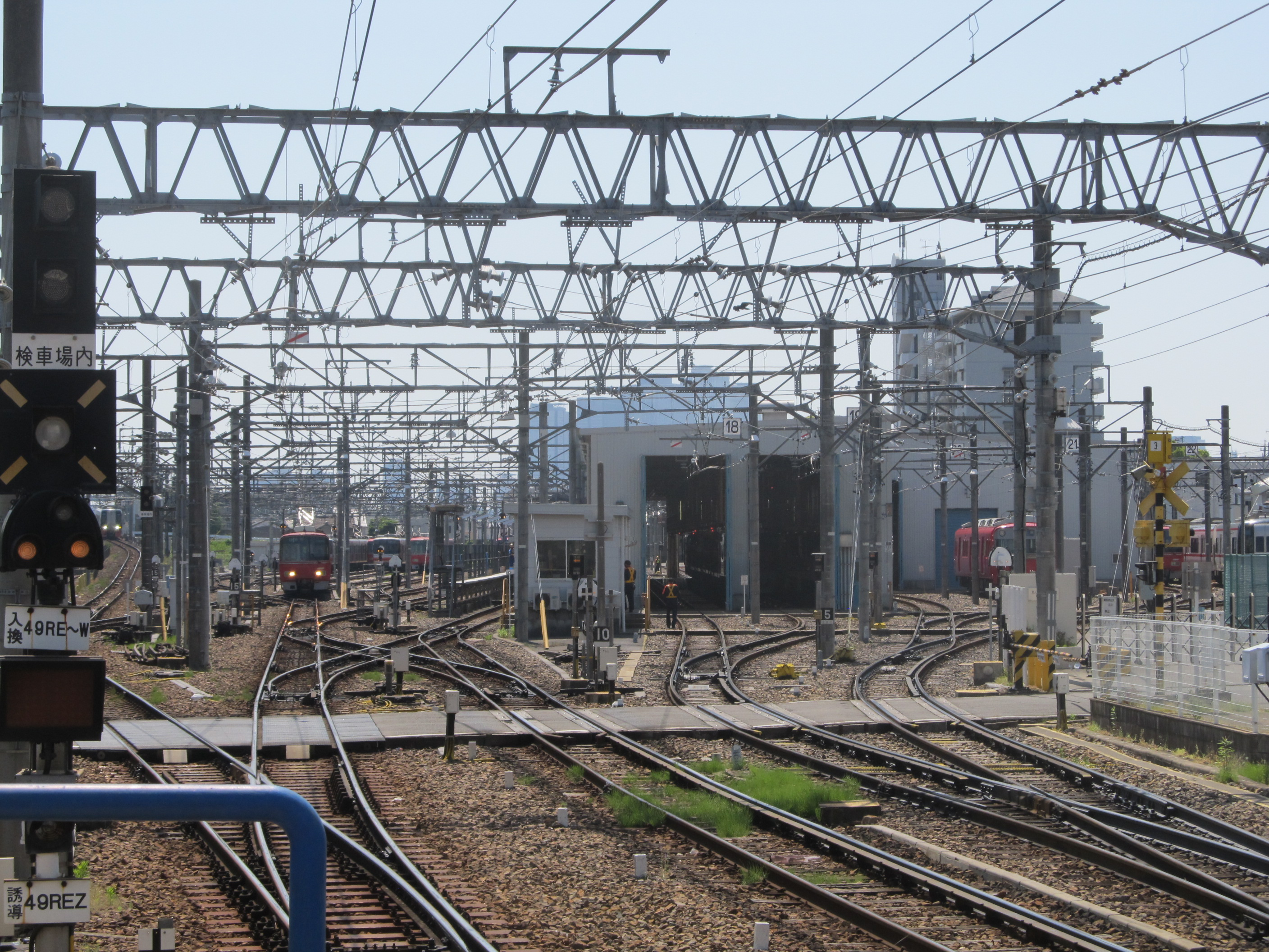 Nagoya Railroad Shinkawa Inspection Yard